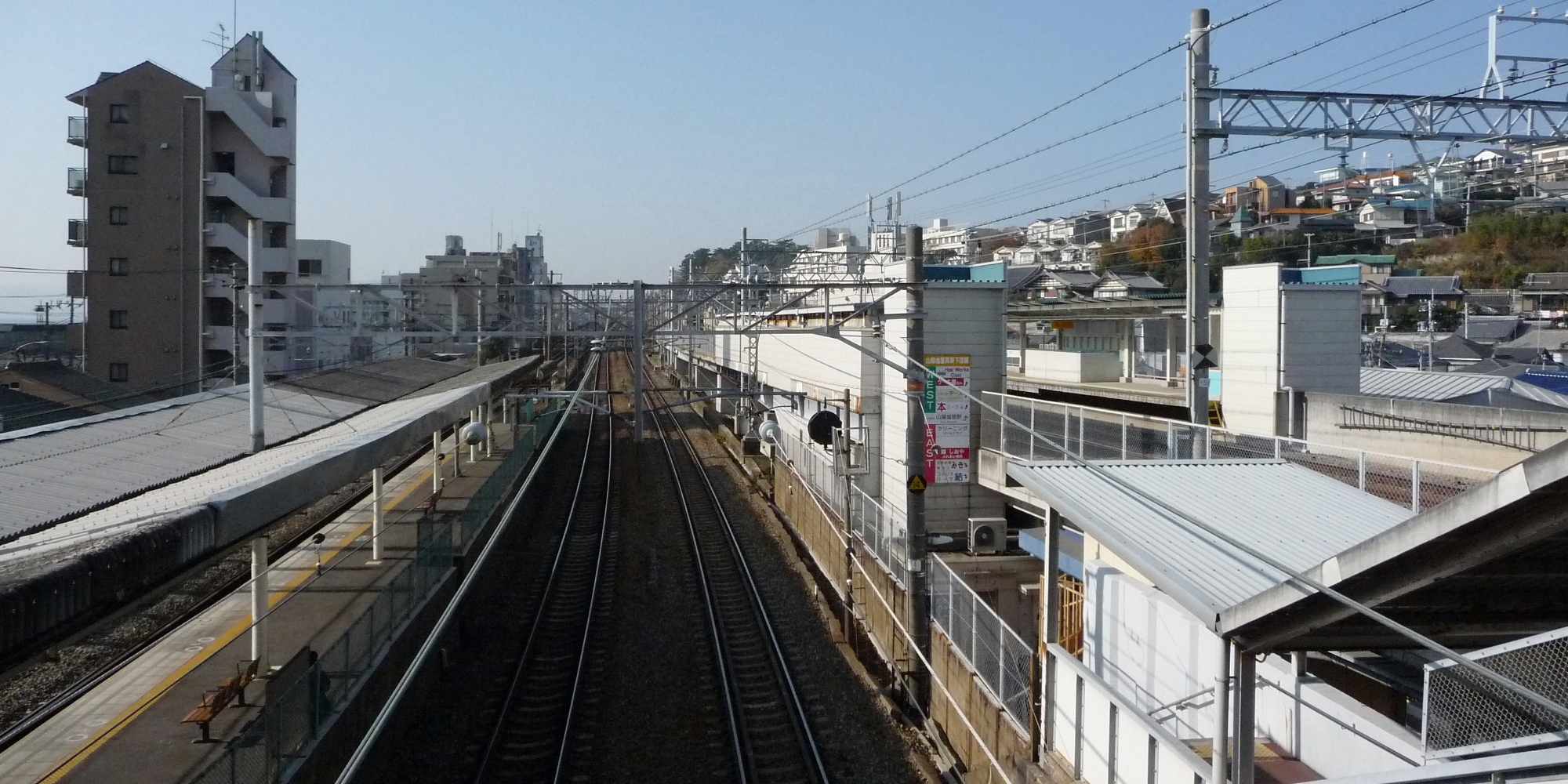 JR Shioya platform and Sanyo-Shioya Station platform.